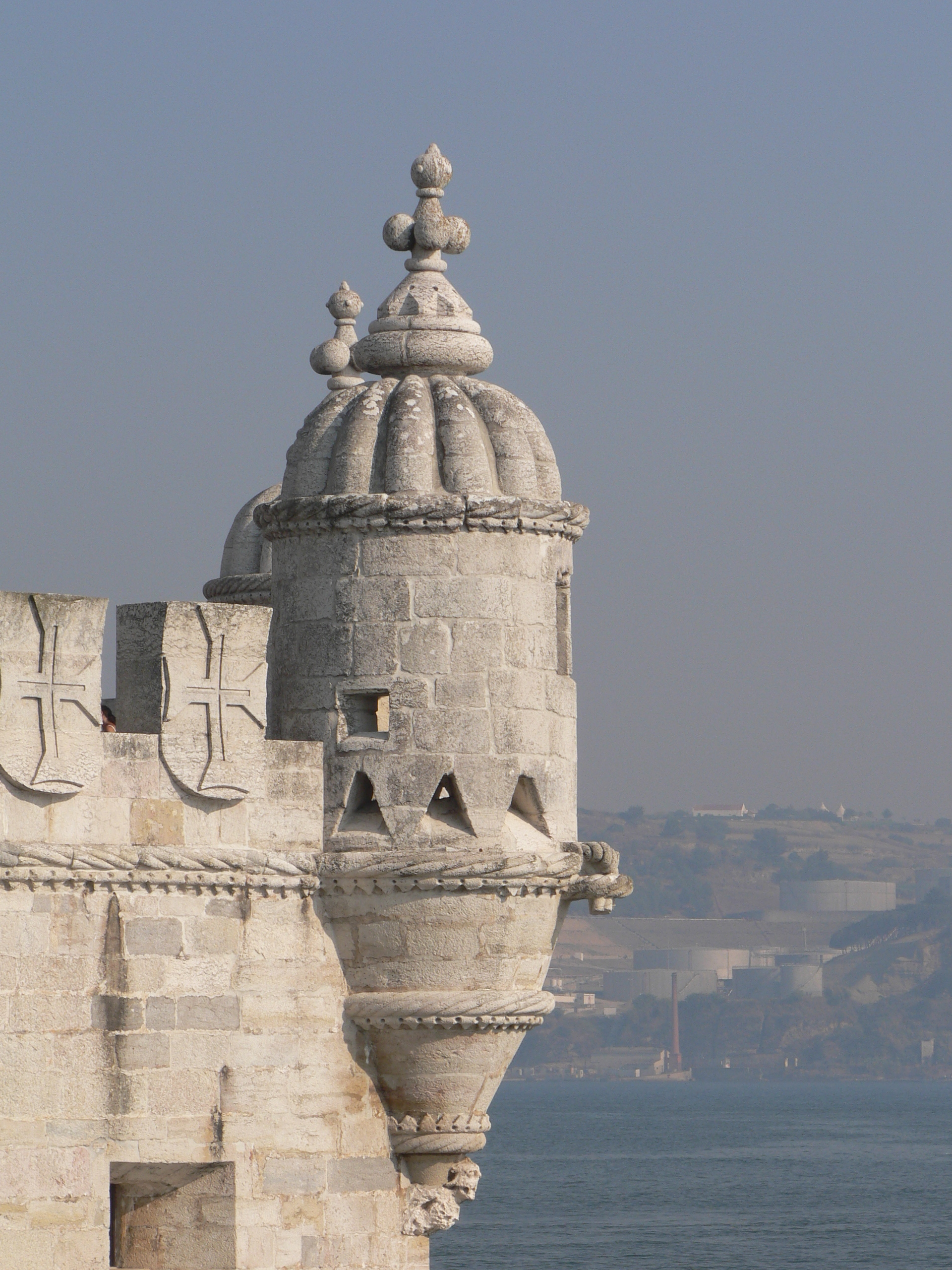 Bartizan in Belem Tower, Lisbon, Portugal.